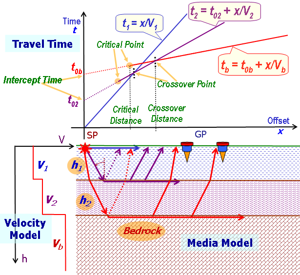 Outlines of seismic refraction with 3 layered model